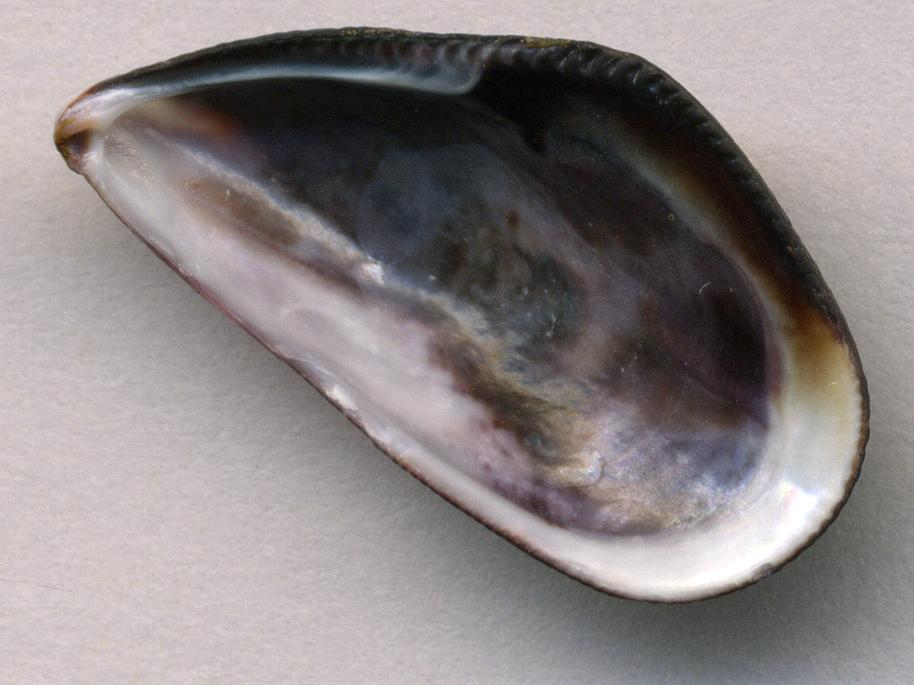 Brachidontes domingensis (Lamarck, 1819) - interior of a right valve of the Domingo mussel, 1.85 cm across at its widest. Some workers consider Brachidontes domingensis to be an ecophenotypic variant of Brachidontes exustus (Linnaeus, 1758). Family Mytilidae (Devonian to Holocene) - the mussels are filter-feeding, epifaunal, byssal thread attachers that principally occupy shallow to deep marine and estuarine environments.